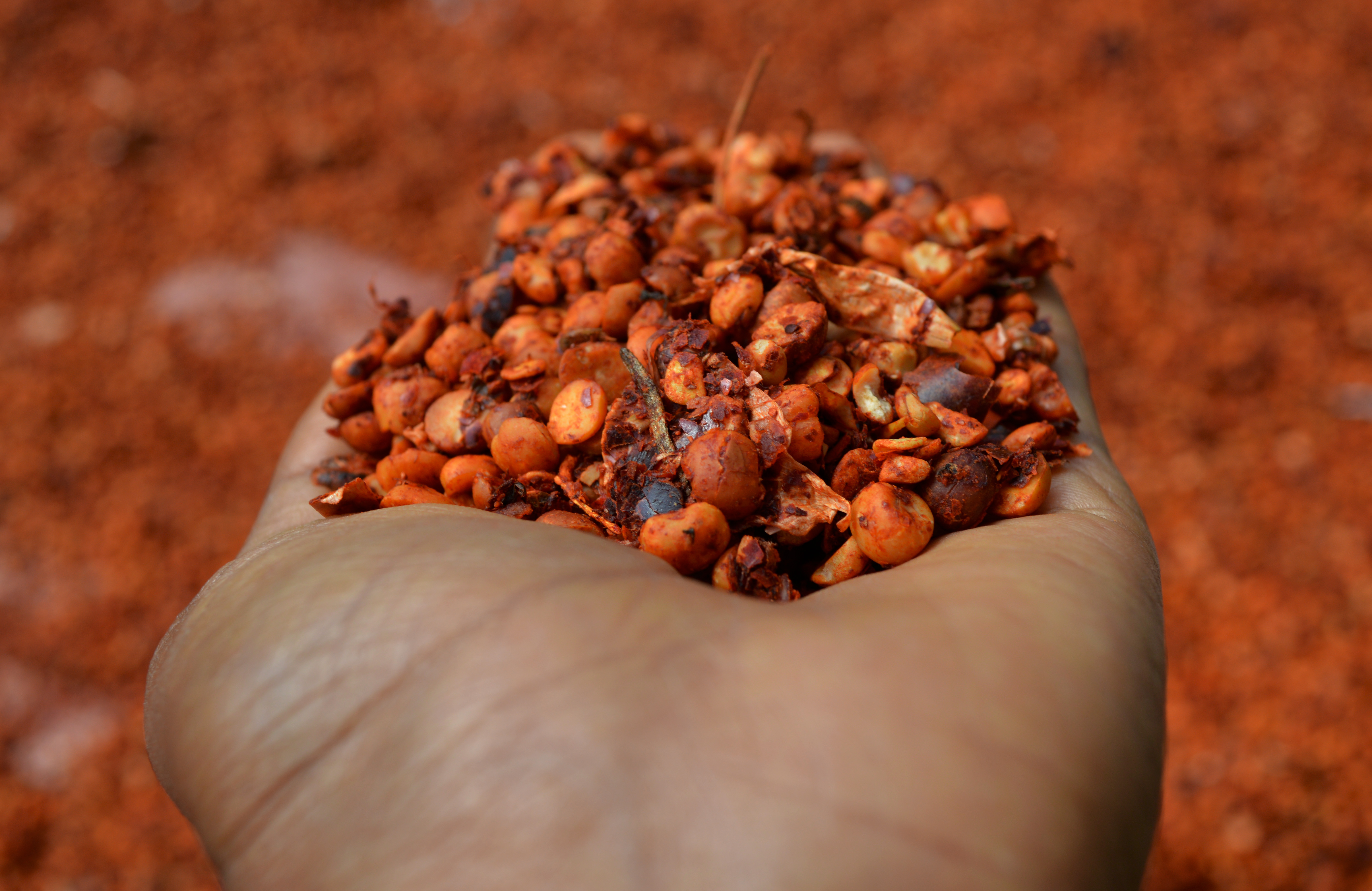 This is the first process of preparing the famous Ethiopian meal 'Shiro'! I took this picture while my mum was preparing the flour for the 'shiro watt' at home!